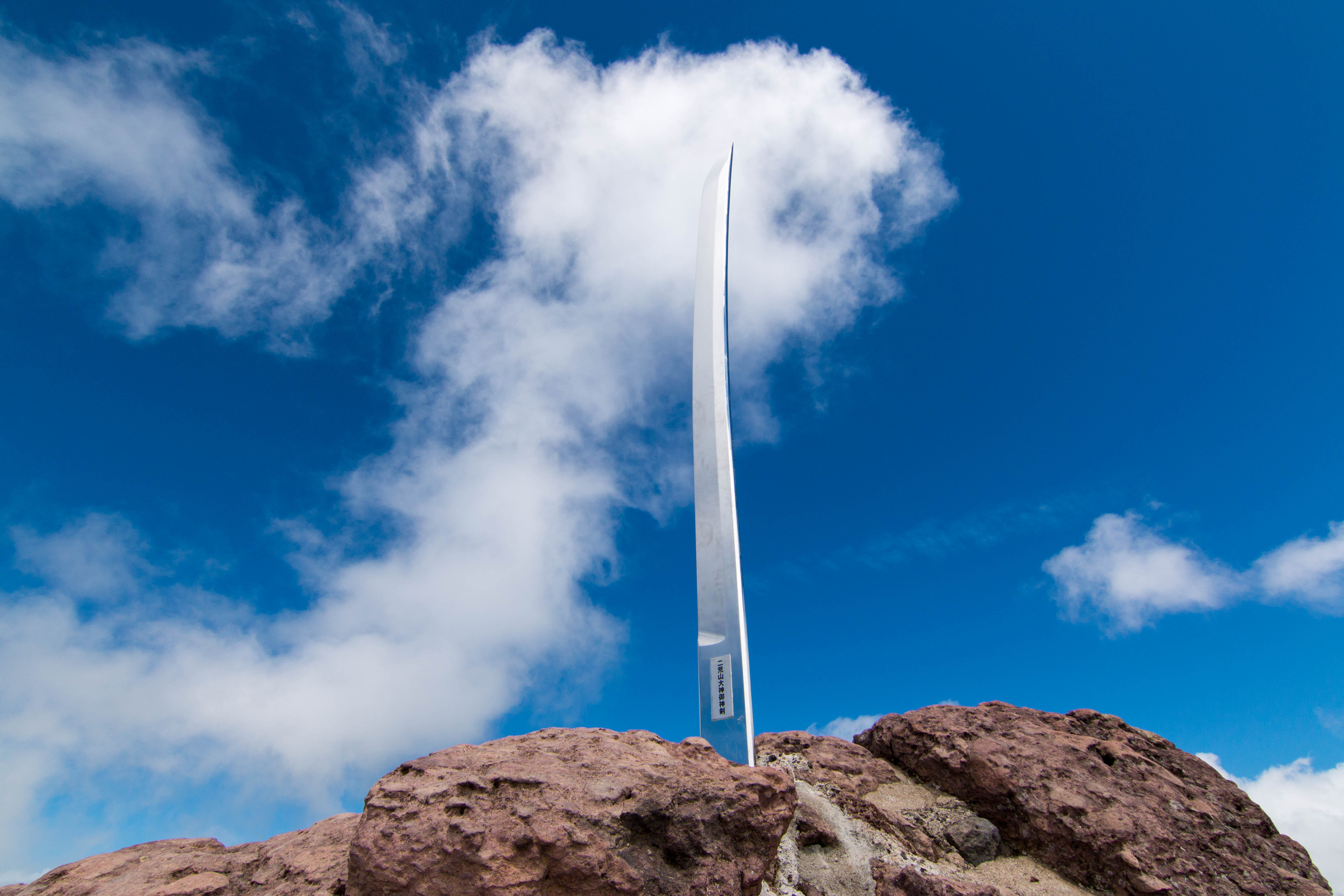 Japan: the mount Nantai top's symbol (Nikkō city, Tochigi prefecture).